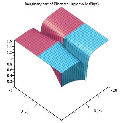 Fibonacci hyperbolic arctan imaginary part 3D plot